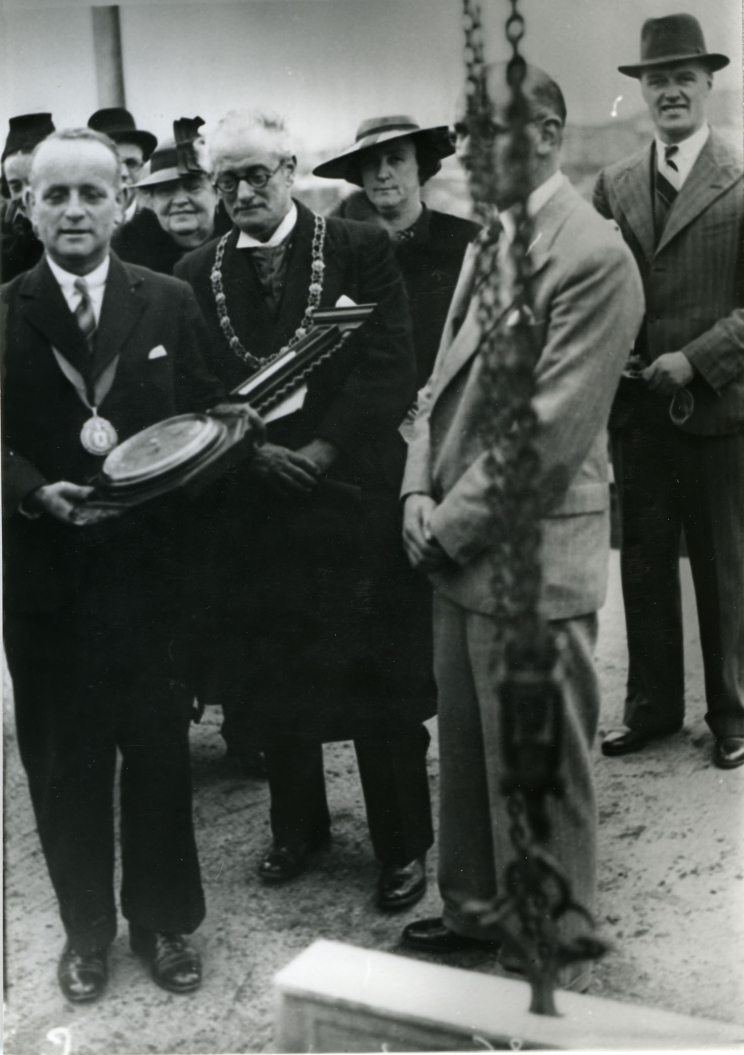 The Mayor of Gateshead lays the foundation stone to begin work on expanding Sheriff Hill Isolation Hospital. Once the work was completed (delayed during WW2), the new hospital was called the Queen Elizabeth II Hospital. It is the largest hospital in Gateshead, Tyne and Wear